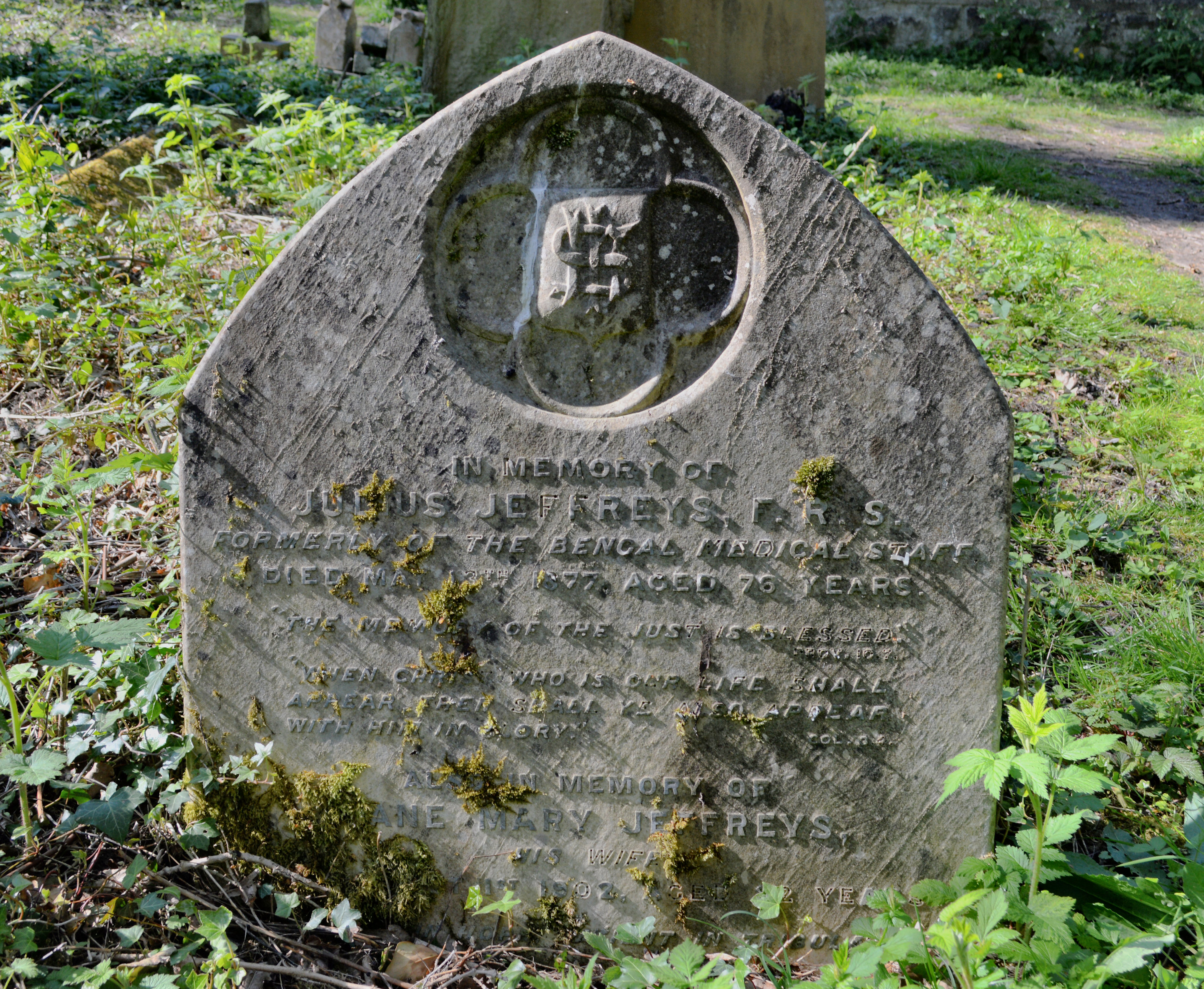 Richmond Old Cemetery, Julius Jeffreys headstone